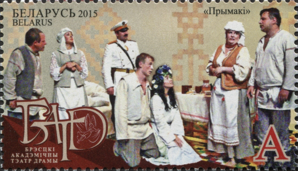 Stamps of Belarus, 2015